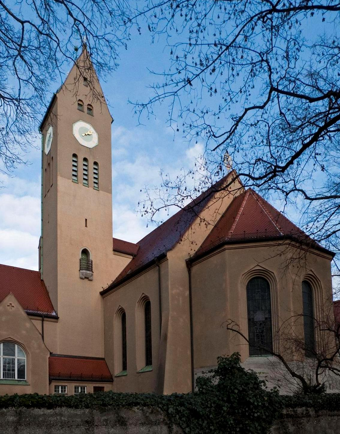 Heilig Kreuz Kirche München Schwabinger Krankenhaus